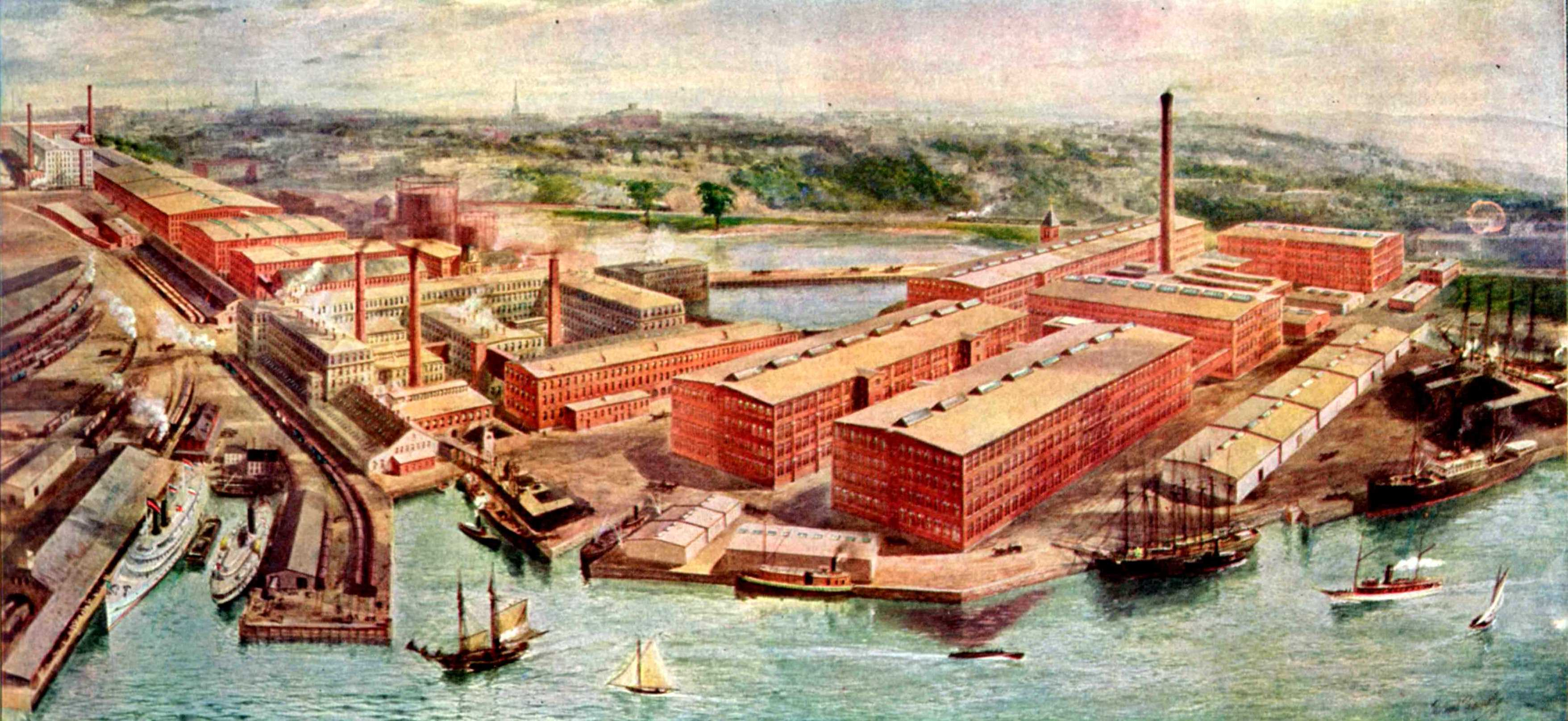 Overview of the American Printing Company, about 1910; from right to left: Iron Works Division Mill #1, #2 (with tower), #3, #5 (in foreground) and #4 (between Mill #5 and Print Works Mills (with mansard roof and tower). The storehouses are on the left side of the image along Anawan Street. Iron Works Mill #6 (Metacomet Mill) and #7 are in the distance.